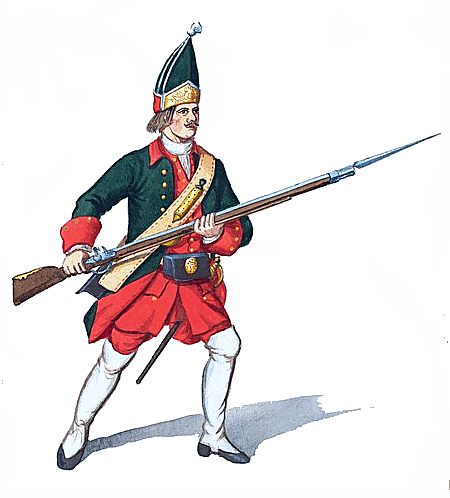 Russian grenadier in 1732